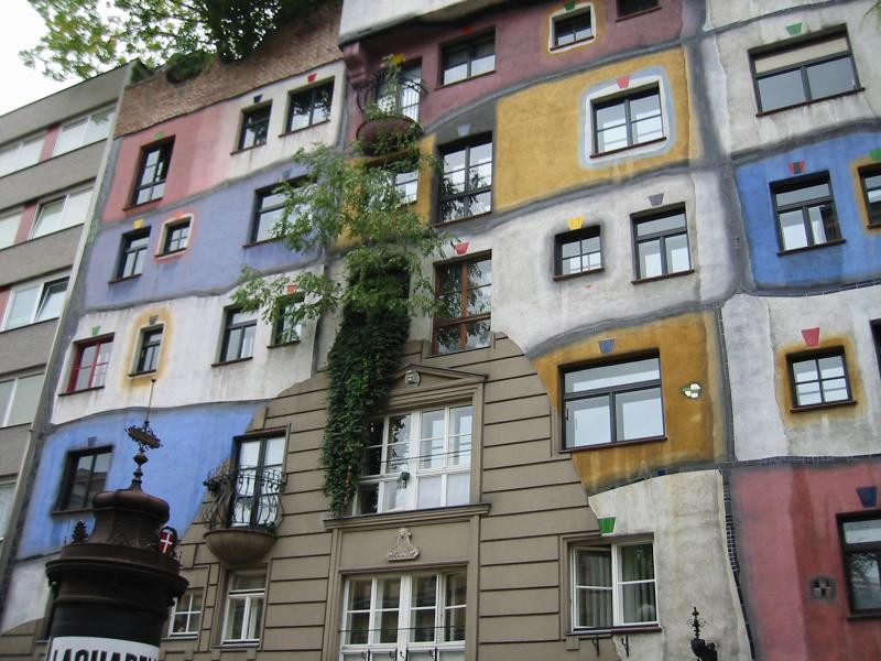 Austria, Vienna, Hundertwasserhaus